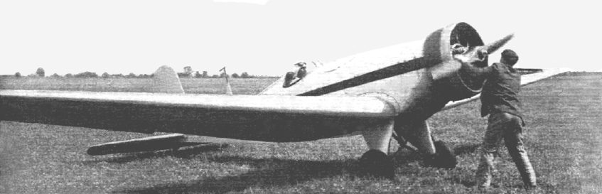 ICAR Universal YR-CCI of prince Constantin Soutzo,[1] Heston, July 1936